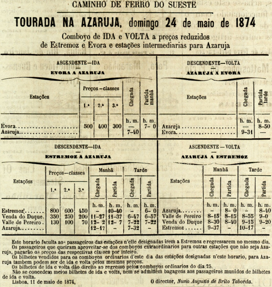 Advertisement of the Caminho de Ferro do Sueste (Portuguese Southeastern Railway) for special trains at reduced prices from Estremoz (Ameixial) and Évora to Azaruja, for a bullfighting event. This image was published on the Diario Illustrado newspaper No. 615, of 23rd May 1874, and scanned by the Biblioteca Nacional de Portugal.